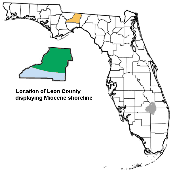 Leon County FL showing Miocene shoreline according to FL Geological Survey, 1994